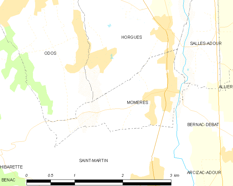 Map of French municipality